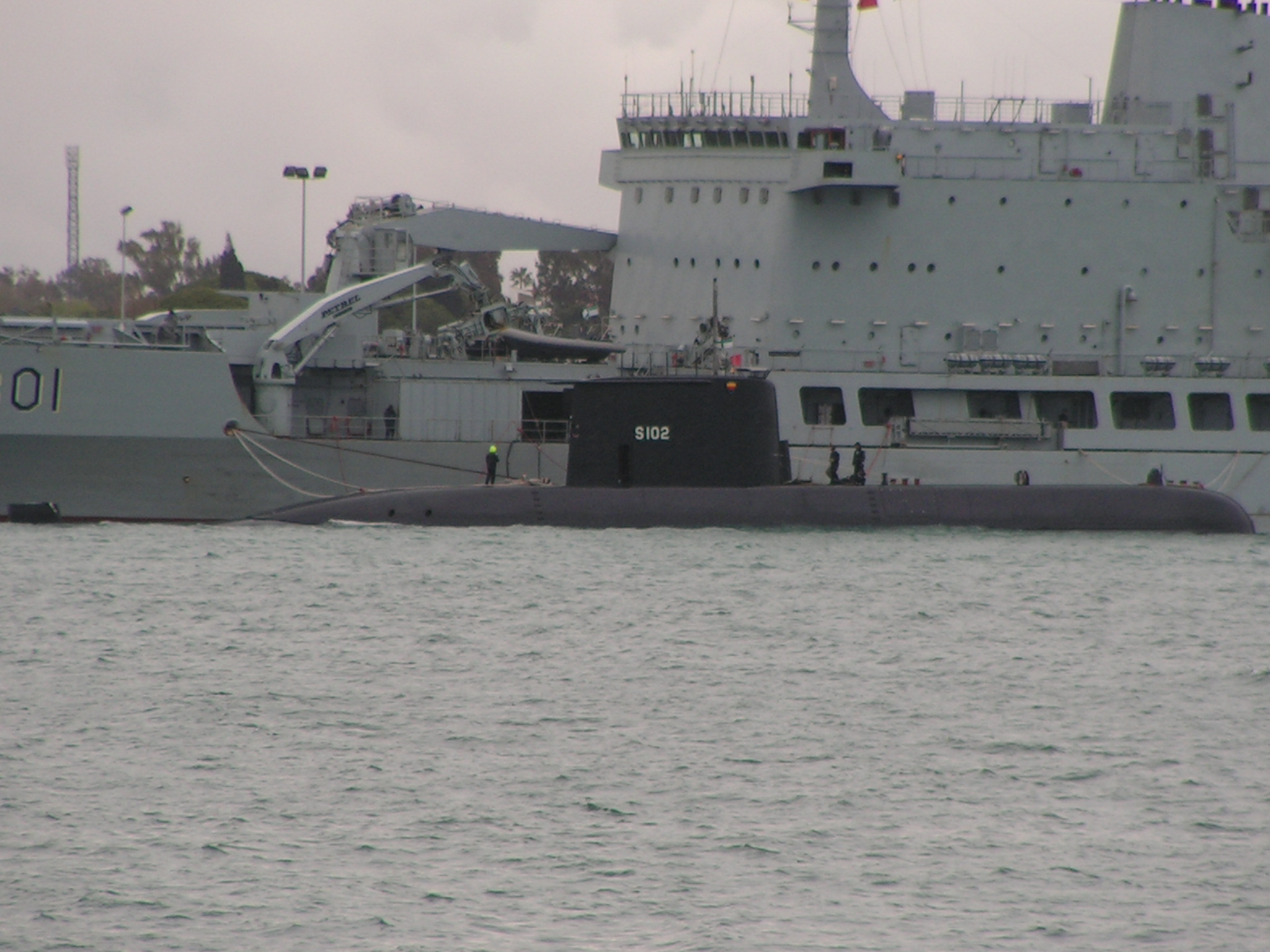 South african submarine type 209 Charlotte Maxeke (S-102)